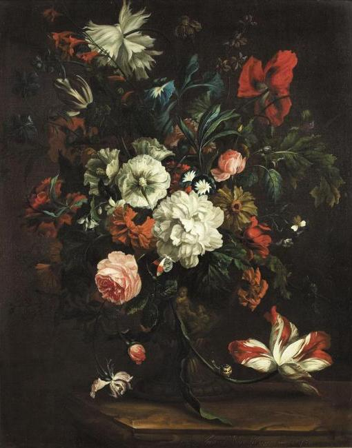 Flowers in a sculpted urn on a stone ledge